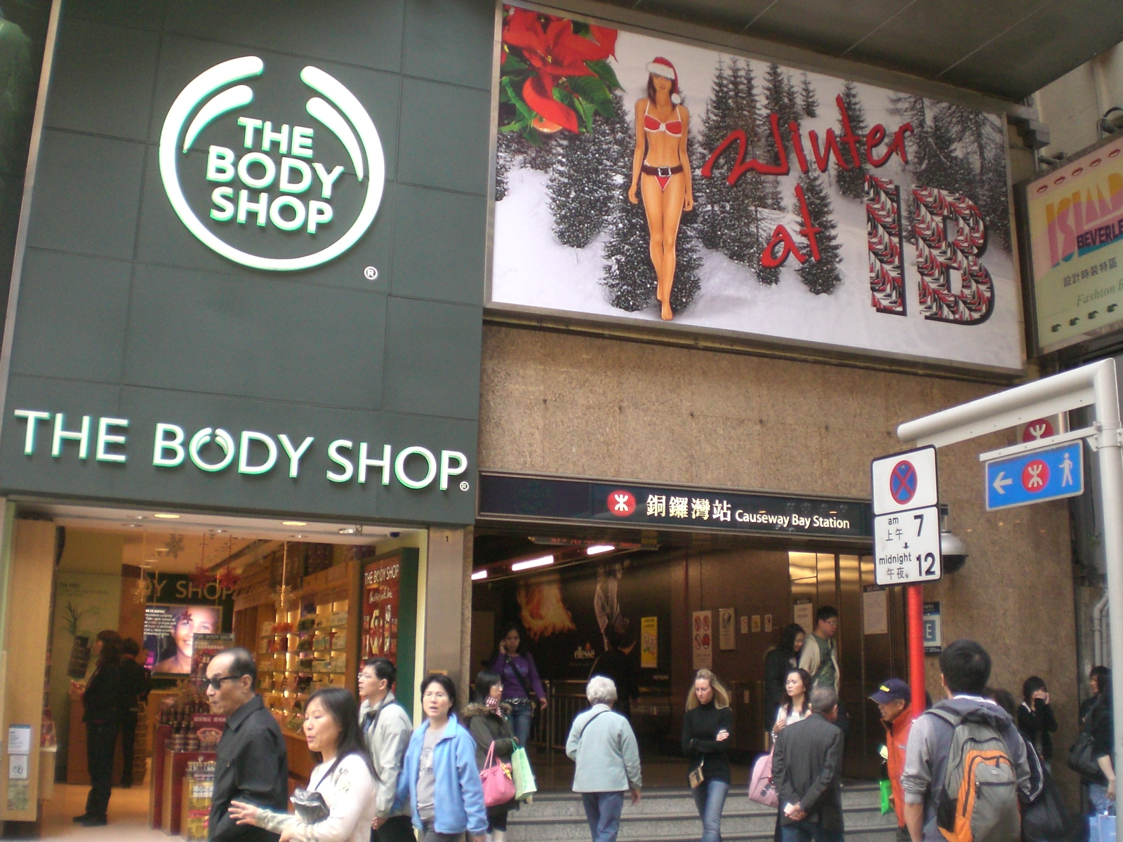 美體小舖, The Body Shop